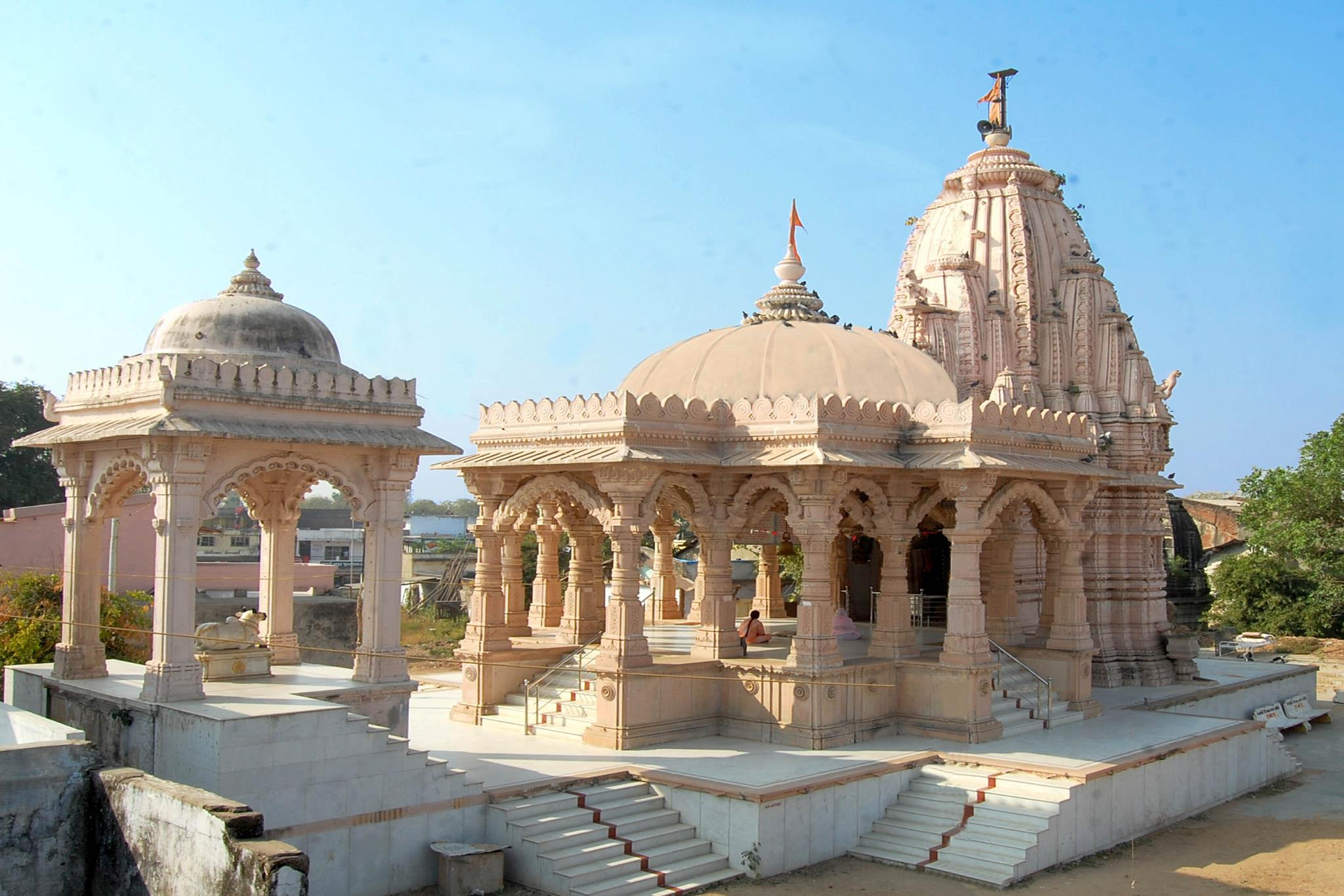 The Yavteshwar Mahadev Temple is more than 800 years old temple of Lord Shiva and situated in Kadi… This Photograph was taken after renovation of temple…